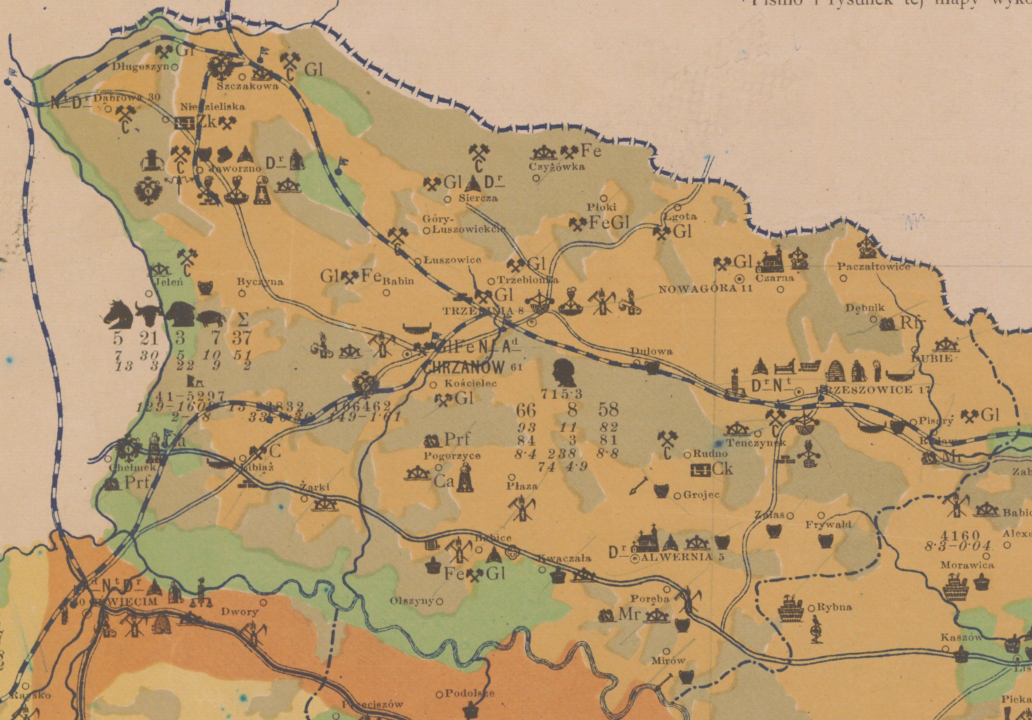 Economy of the Chrzanów County in 1878, further explanation